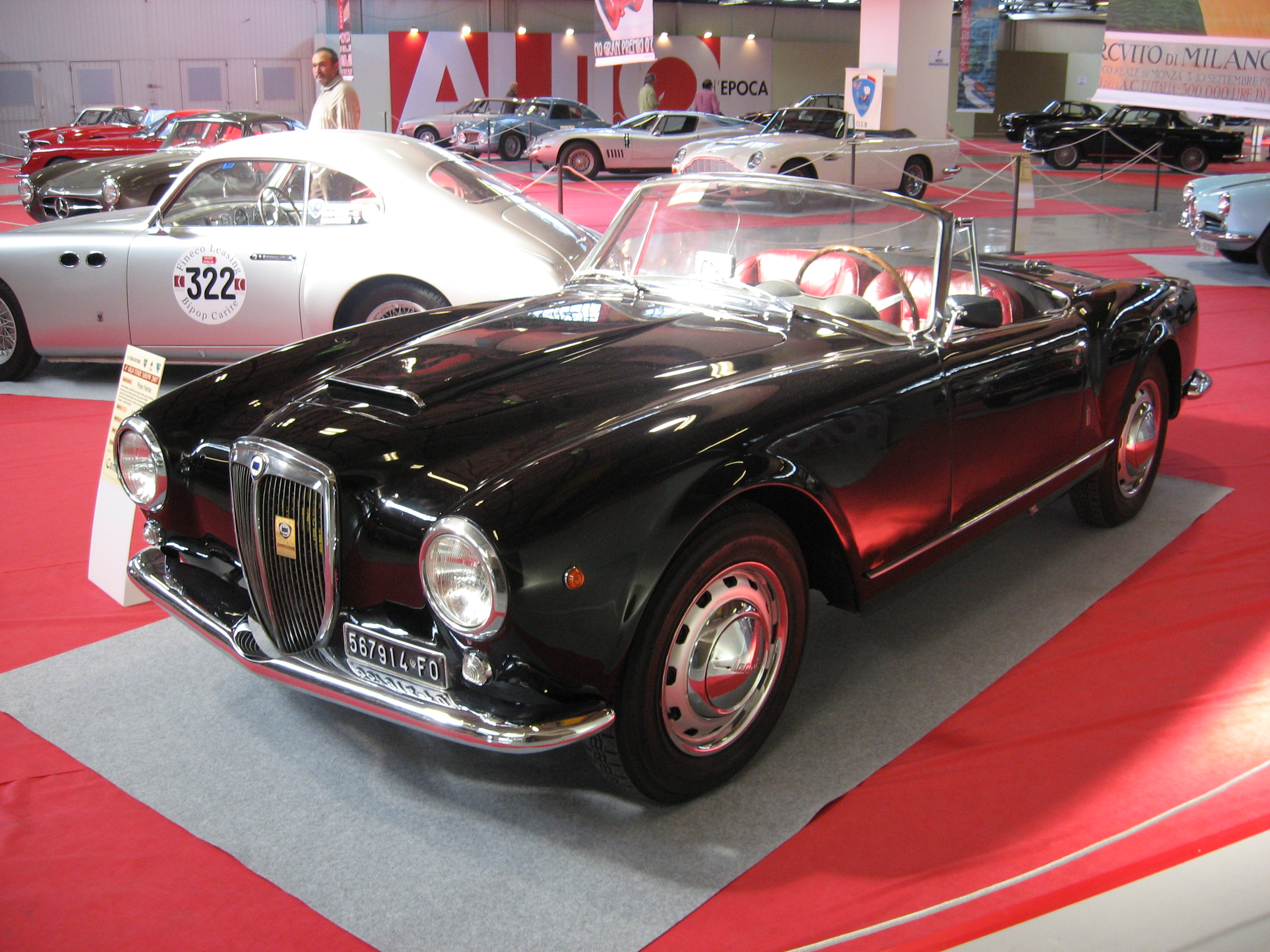 This photo shows a Lancia Aurelia B24 Convertible. Author: Luc106 Date: 18th march 2007 Place: Forlì (Italy) Event: Old Time Show I release all rights in the public domain.